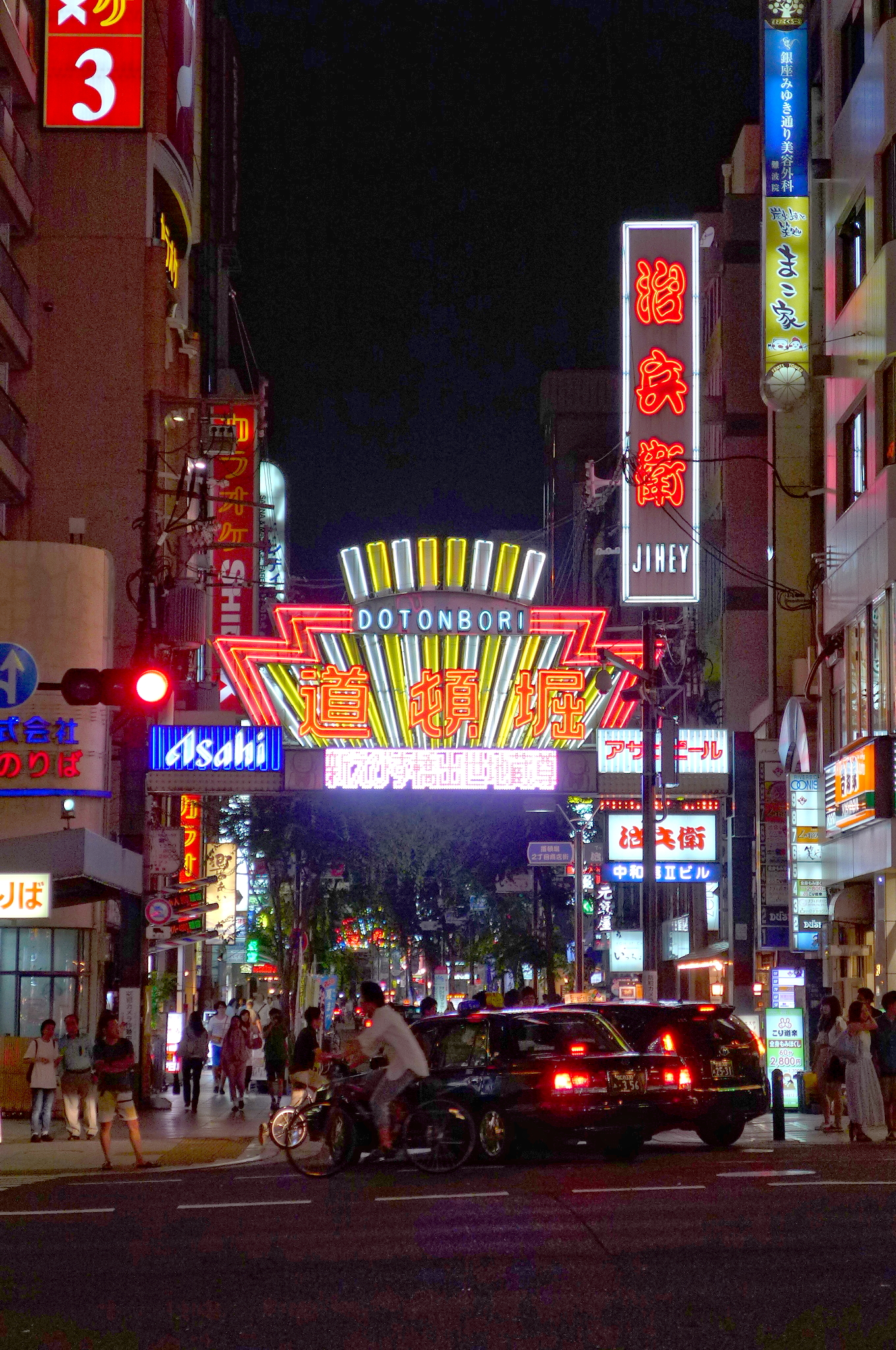 Dotonbori Neon Sign